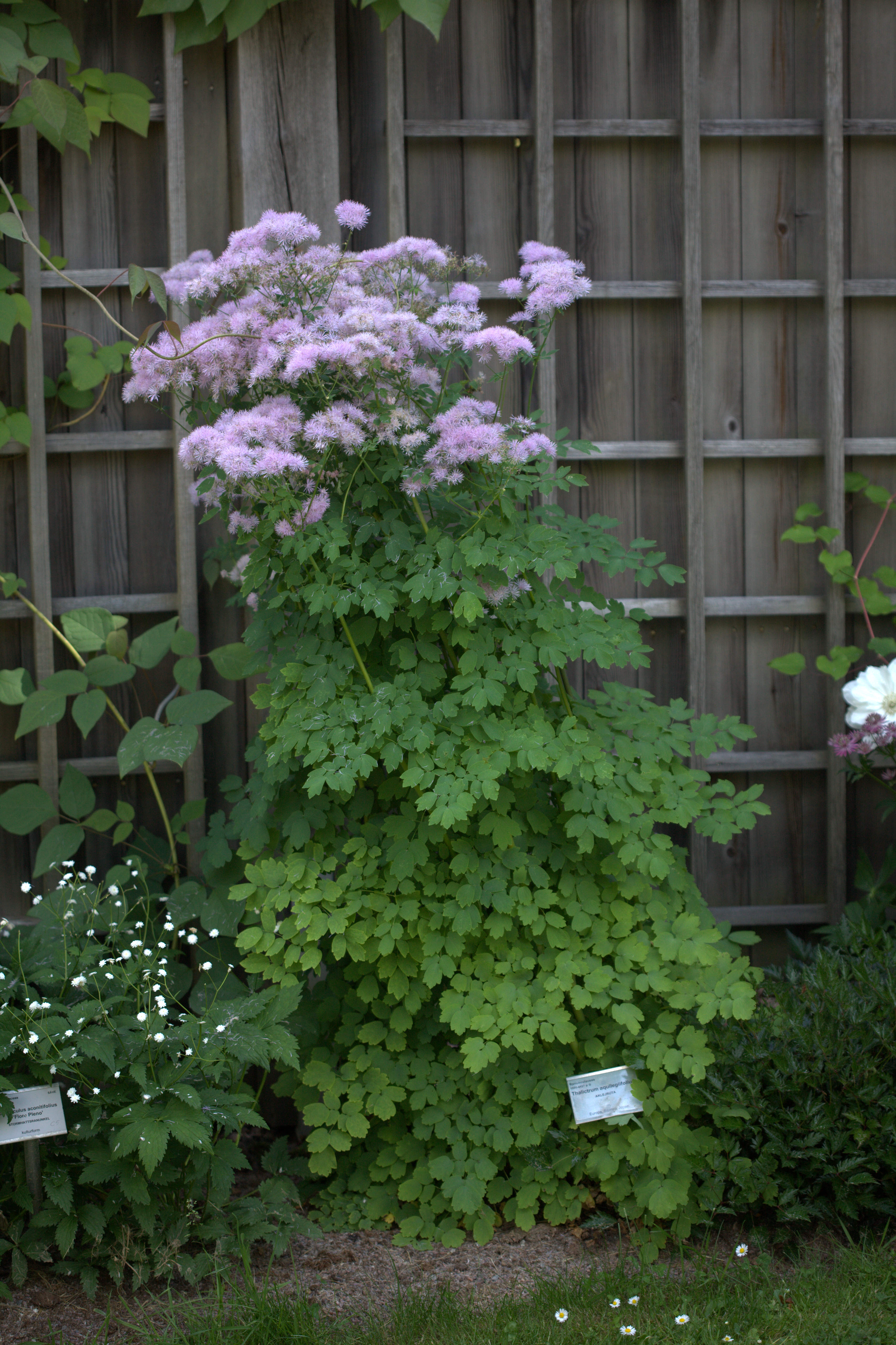 Photo taken at Gothenburg botanical garden. Specimen id: 1900-4427 p G Plant collected in 1900 from a garden.